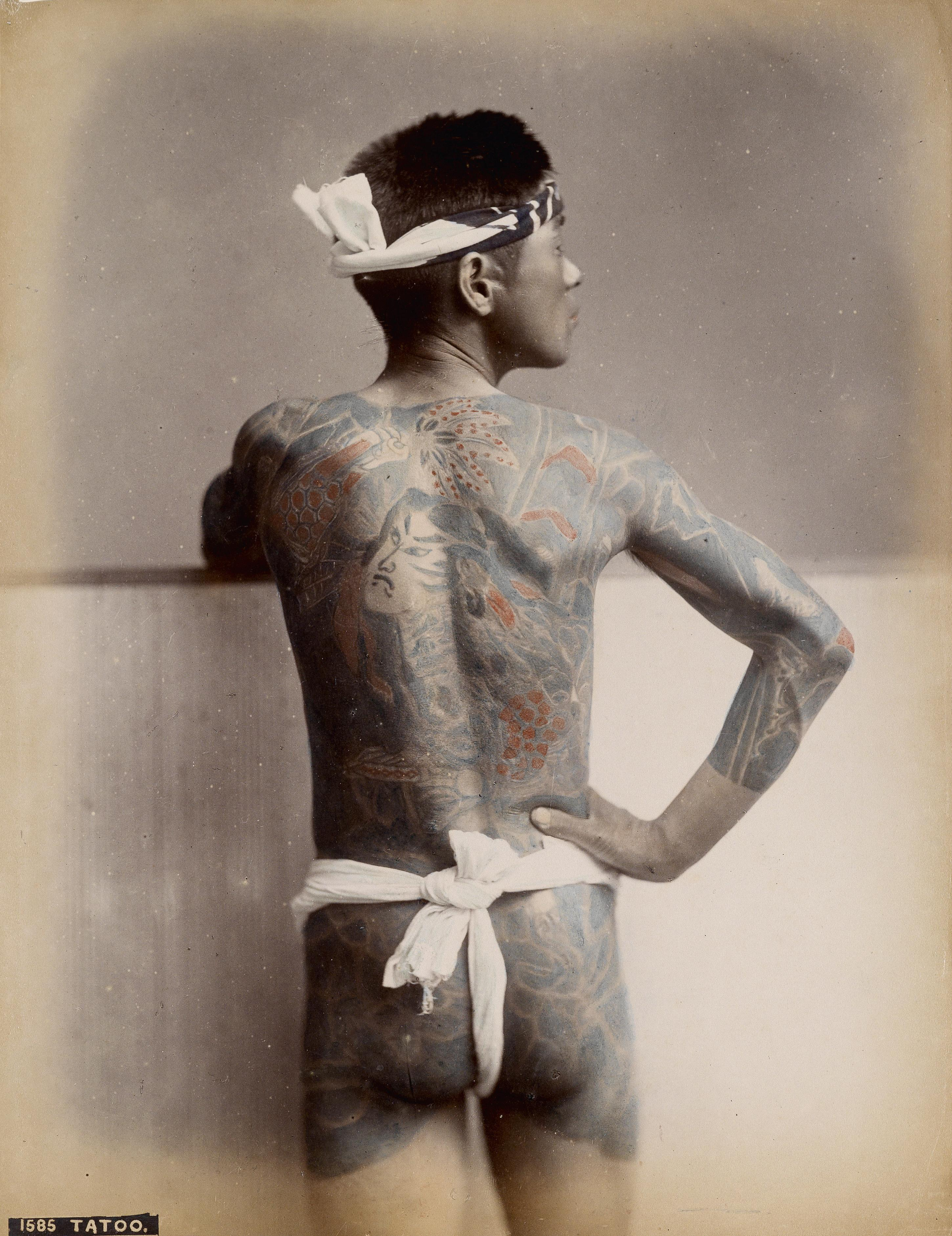 "1585 Tattoo". Albumin, handkoloriert, ca. 20 x 26 cm